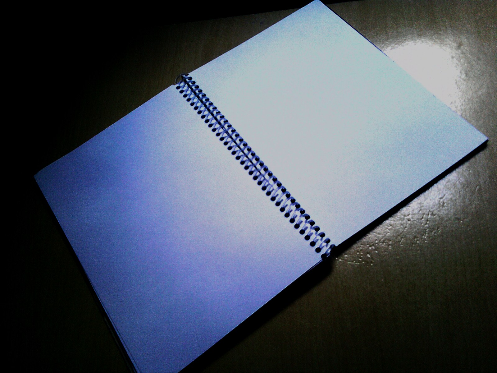 Example of notebook with no lines